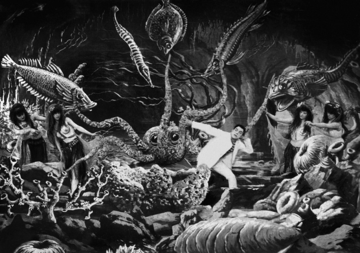 20,000 Leagues Under the Sea (French: 20000 lieues sous les mers) is a silent film made in 1907 by French director Georges Méliès, based loosely on the novel by Jules Verne of the same title. This is from a scene near the end of the film.